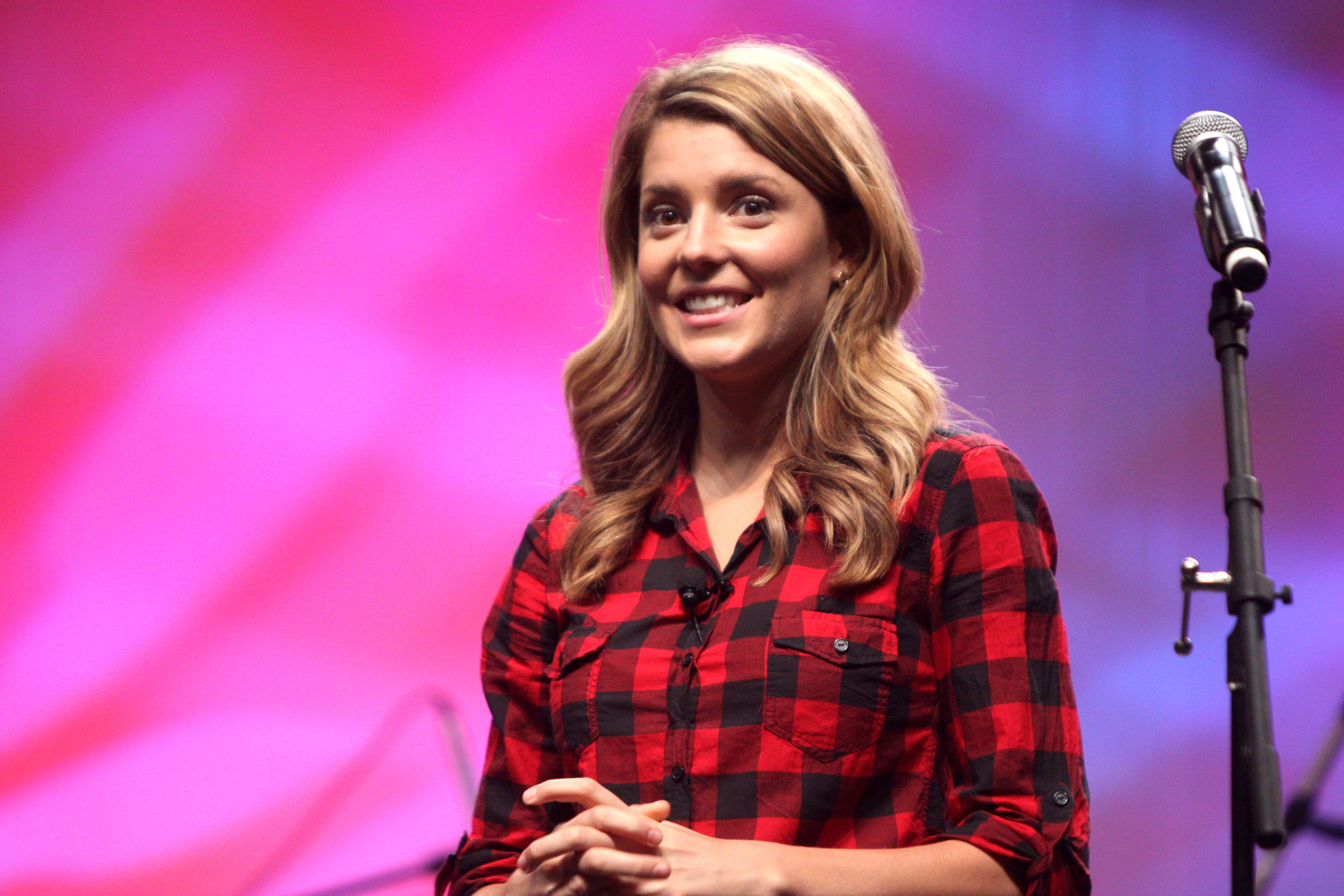 Daily Grace Helbig speaking at VidCon 2012 at the Anaheim Convention Center in Anaheim, California.